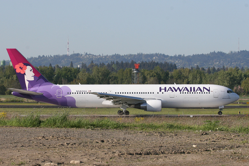 Hawaiian Airlines Boeing 767-300ER